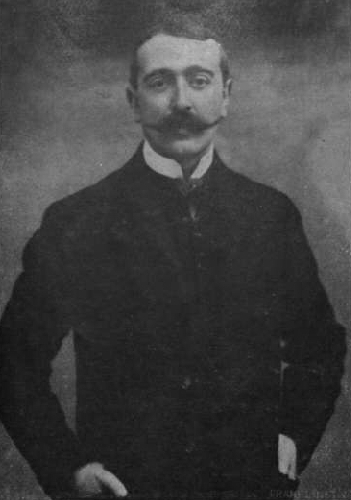 Photo of the politician Zsigmond Perényi